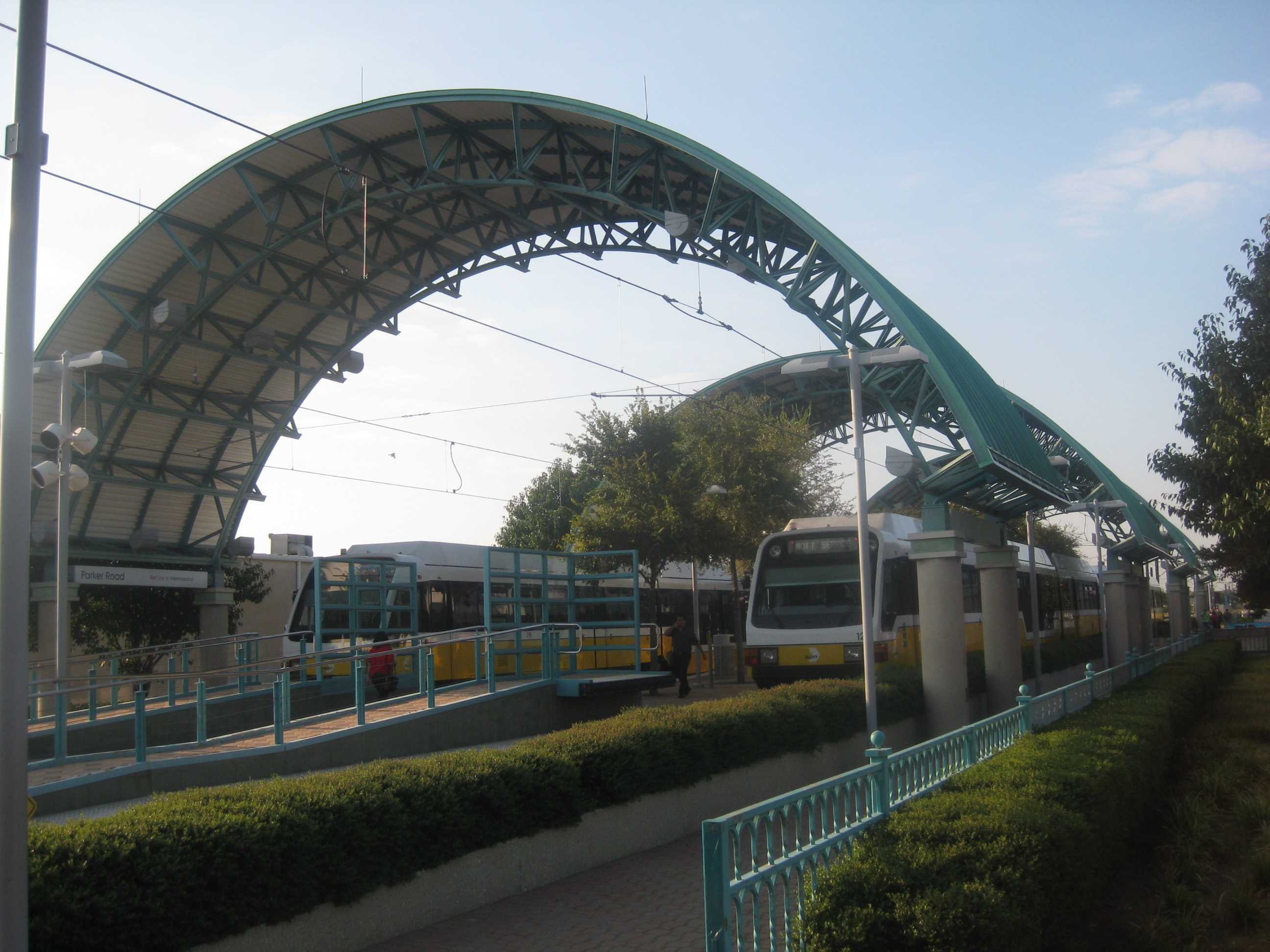 The tracks and adjacent platforms at the Parker Road DART station in Plano, Texas.